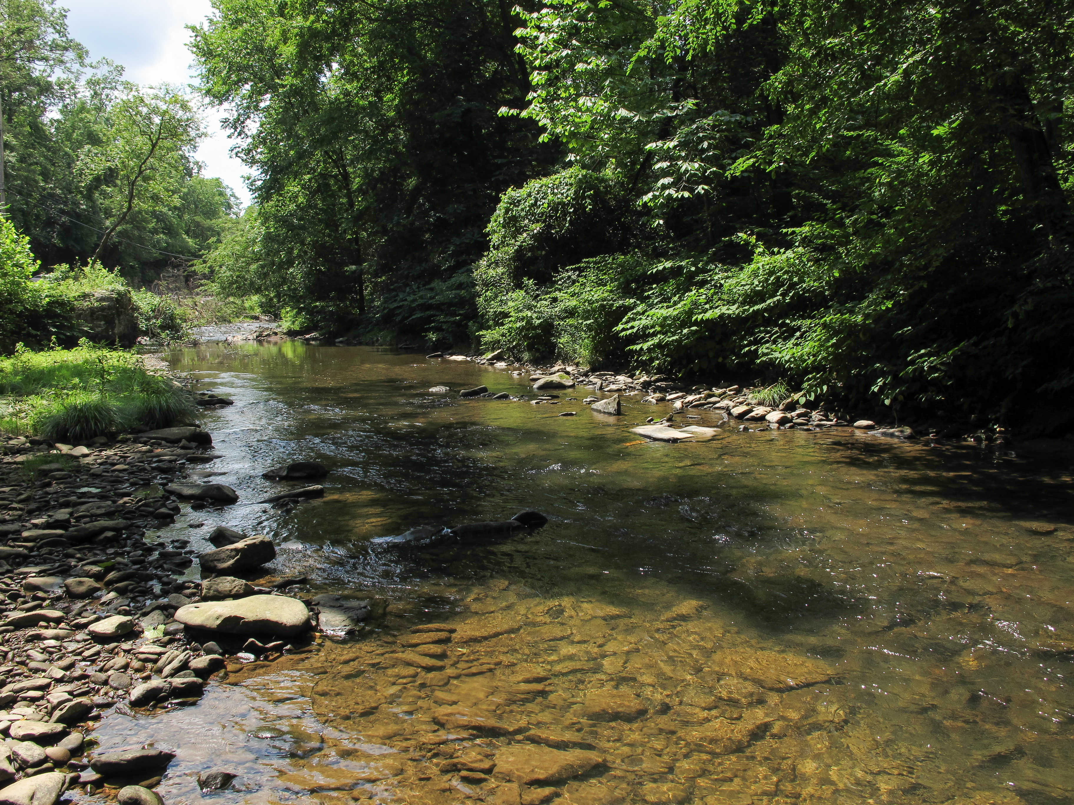 Loop Creek north of Robson, West Virginia, as viewed from alongside West Virginia Route 61.